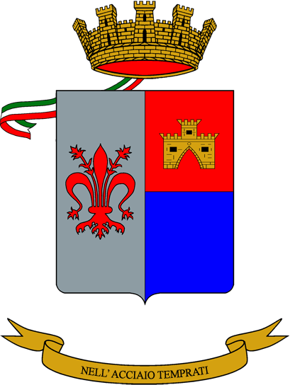 Coat of Arms of the 19° Armoured Battalion; Italian Army